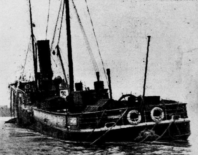 Fenella aground at Tranmere, April 1922.